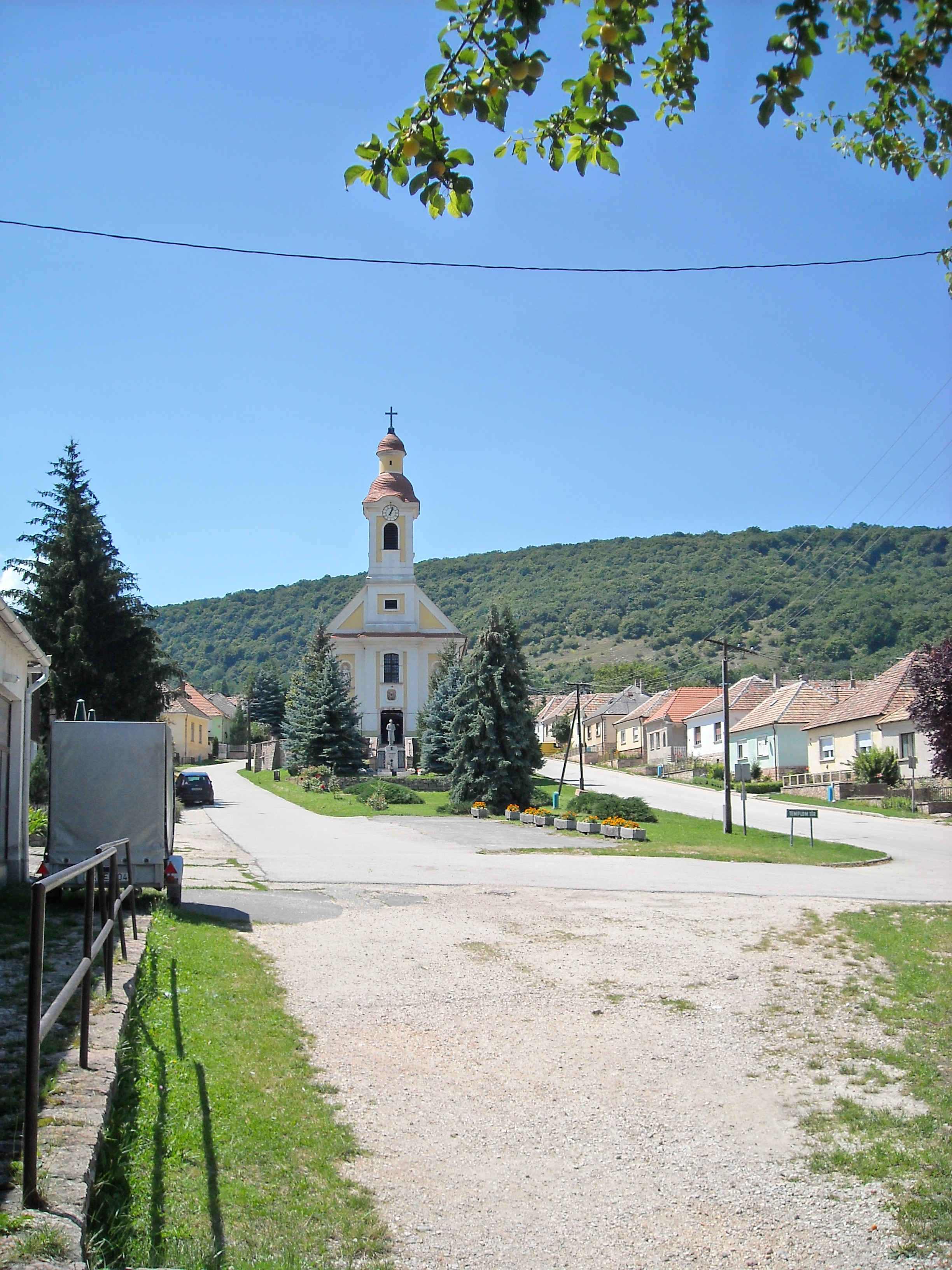 Mária Magdolna római katolikus templom, Tardos, Hungary